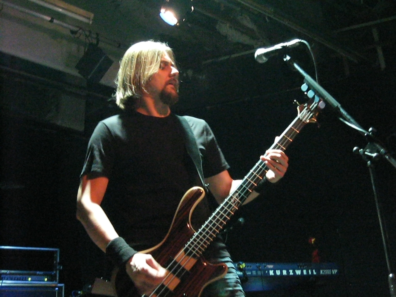 Riverside at Lydney Town Hall. 2007-11-29.